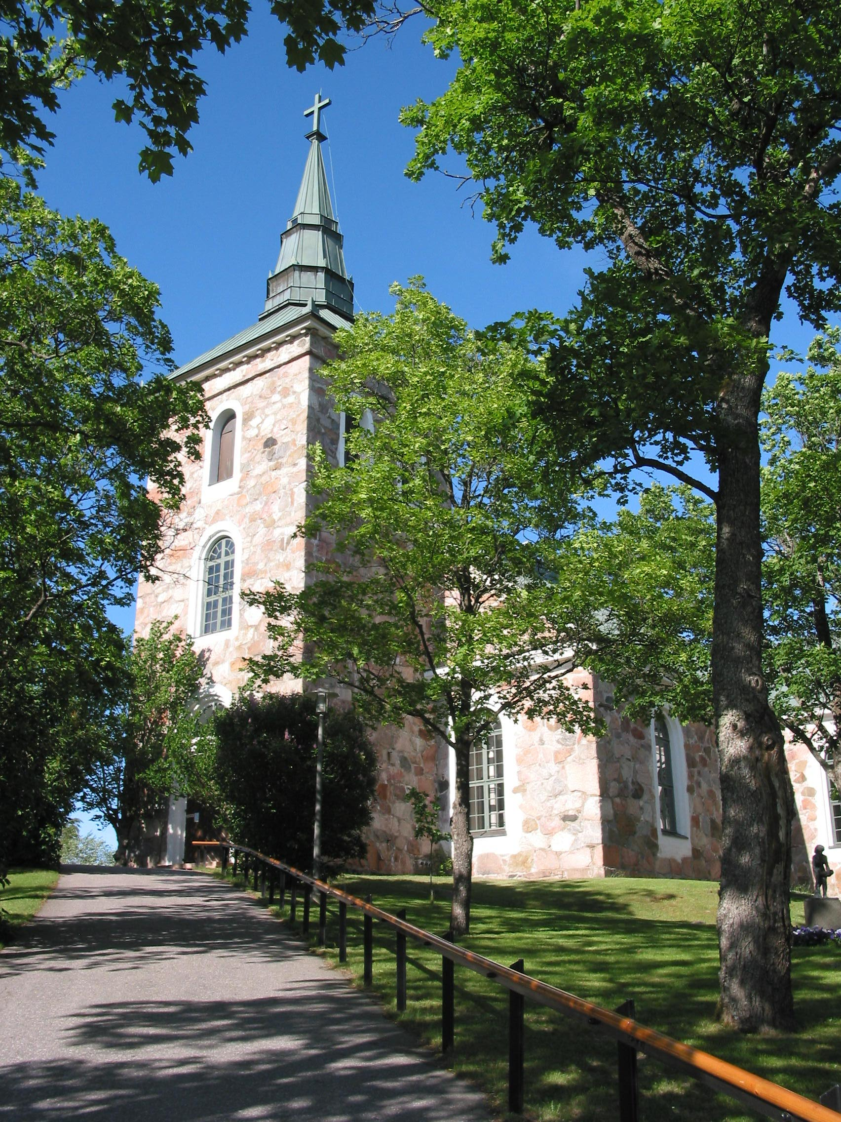 Uskela Church in Salo, Finland